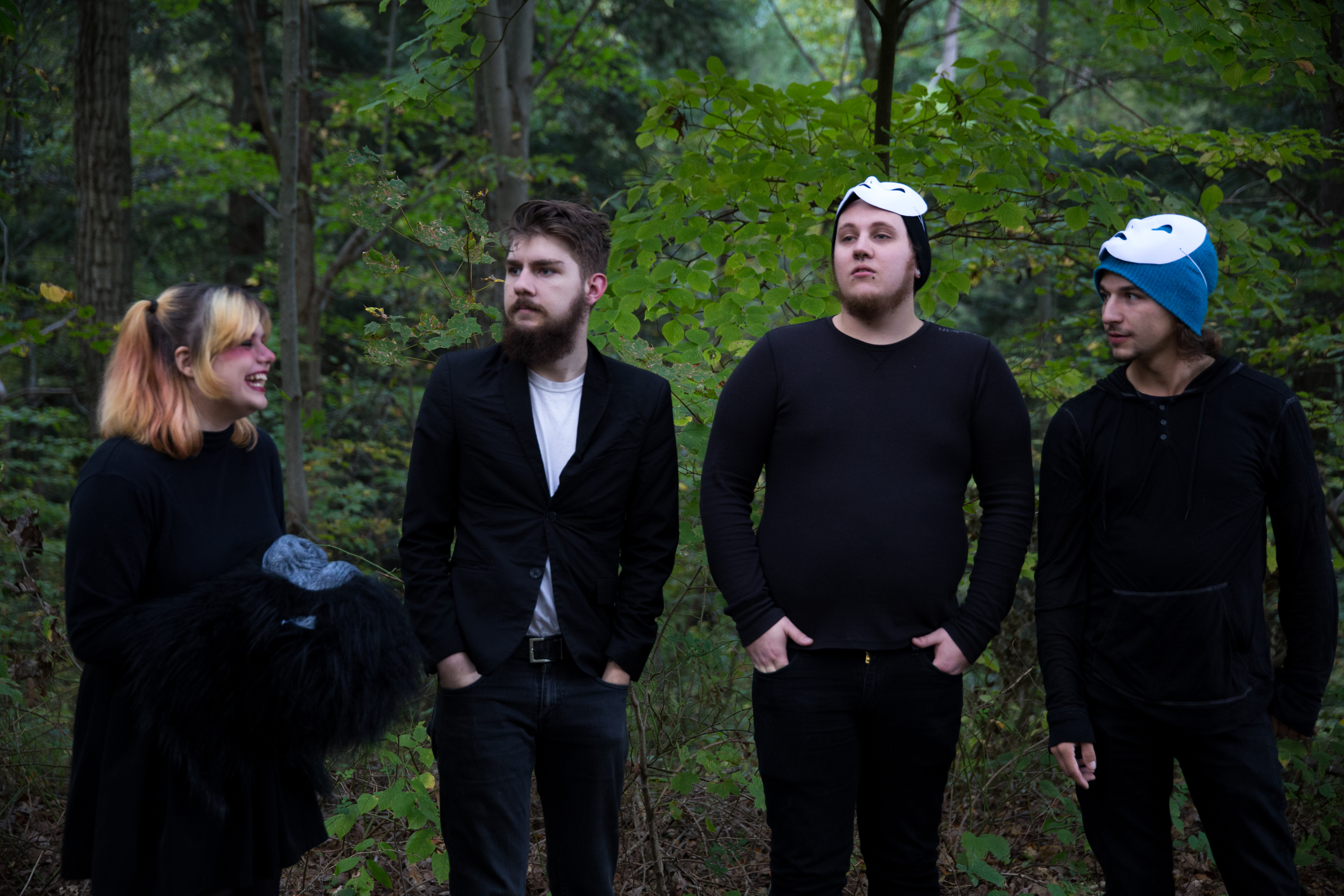 Indie rock band Steadyfire in October of 2018.